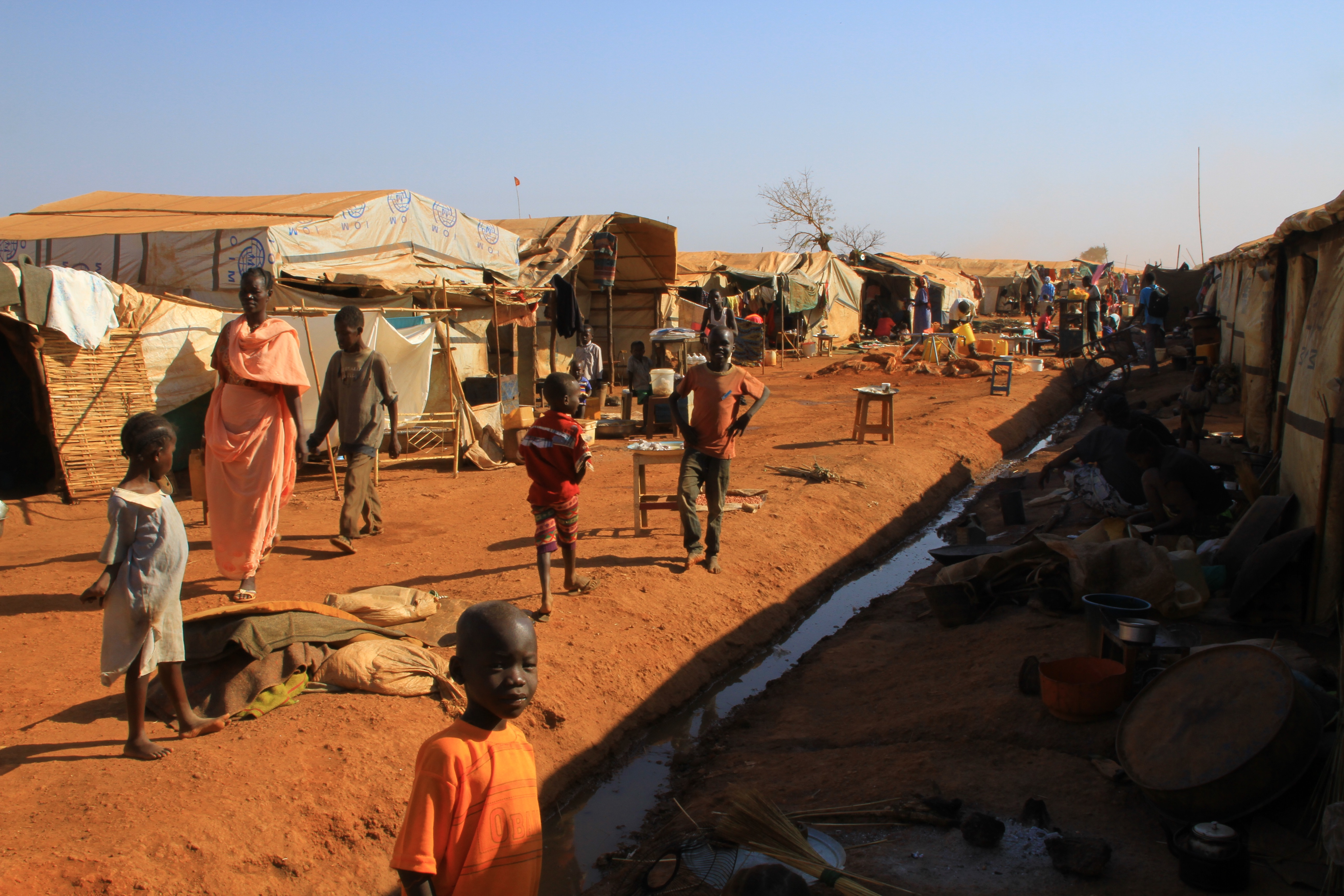 Wau refugee camp.